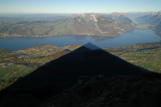 Shadow of Niesen on Lake Thun